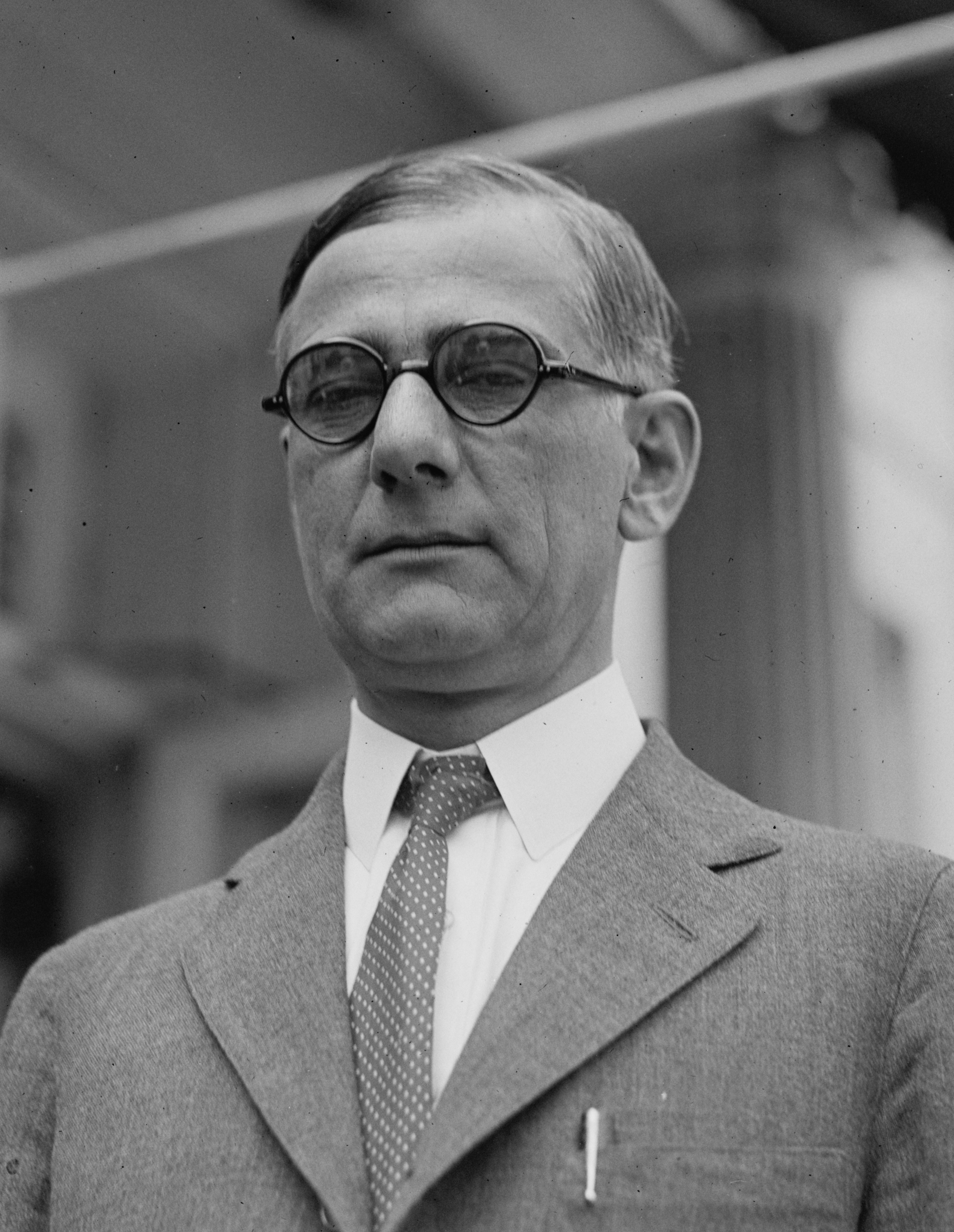 A.M. Hyde, Gov. of Missouri, 9/2/23